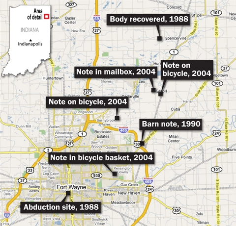 Map of the Fort Wayne, Indiana area, showing important places in the April Tinsley kidnapping and murder case.